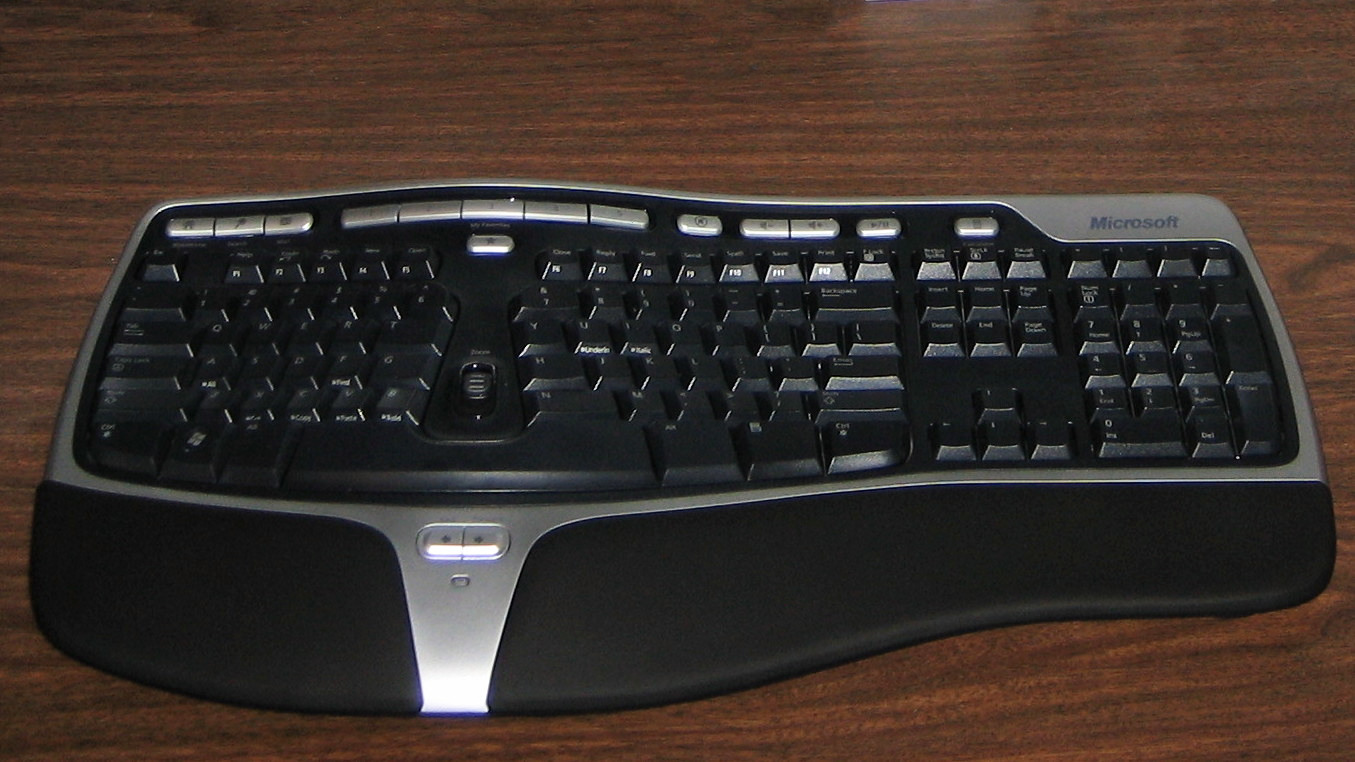 I had one of the early Microsoft Natural keyboards and loved it. My Dad got me the latest, wireless versions of both the keyboard and the mouse. I'm still getting used to both -- the mouse in particular is very funky -- but I'm happy about how it integrates with my workspace.